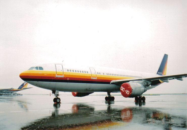 Japanese Aieline's photo